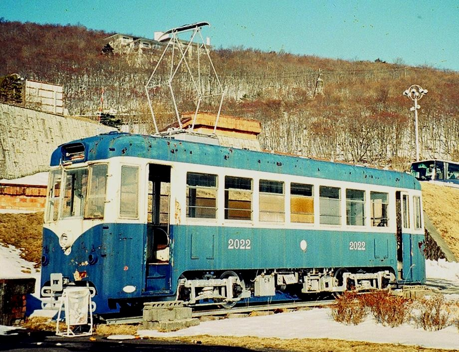 Fukushima Kotsu Iizaka Higashi Line Type 2022 tram, preserved at Nasu Royal Center (now abandoned) in Tochigi, Japan